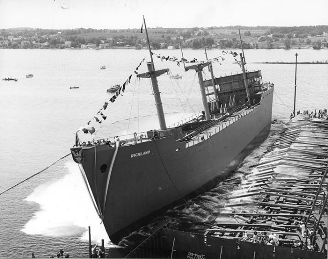 Reflecting the side-launching practice dictated by shipbuilding on inland waterways, Richland, her name in white block letters on her bow, enters her element on 5 August 1944, while the christening party watches her progress from the platform at lower right and spectators afloat and ashore look on. (U.S. Navy Photograph 80-G-266885, National Archives and Records Administration, Still Pictures Branch, College Park, Md.).